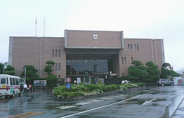 City Office of Munakata, Japan